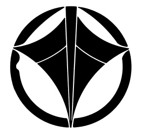 Funahashi Toyama chapter